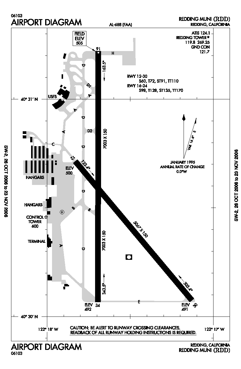 FAA airport diagram for RDD (Redding Municipal Airport) in California, United States.